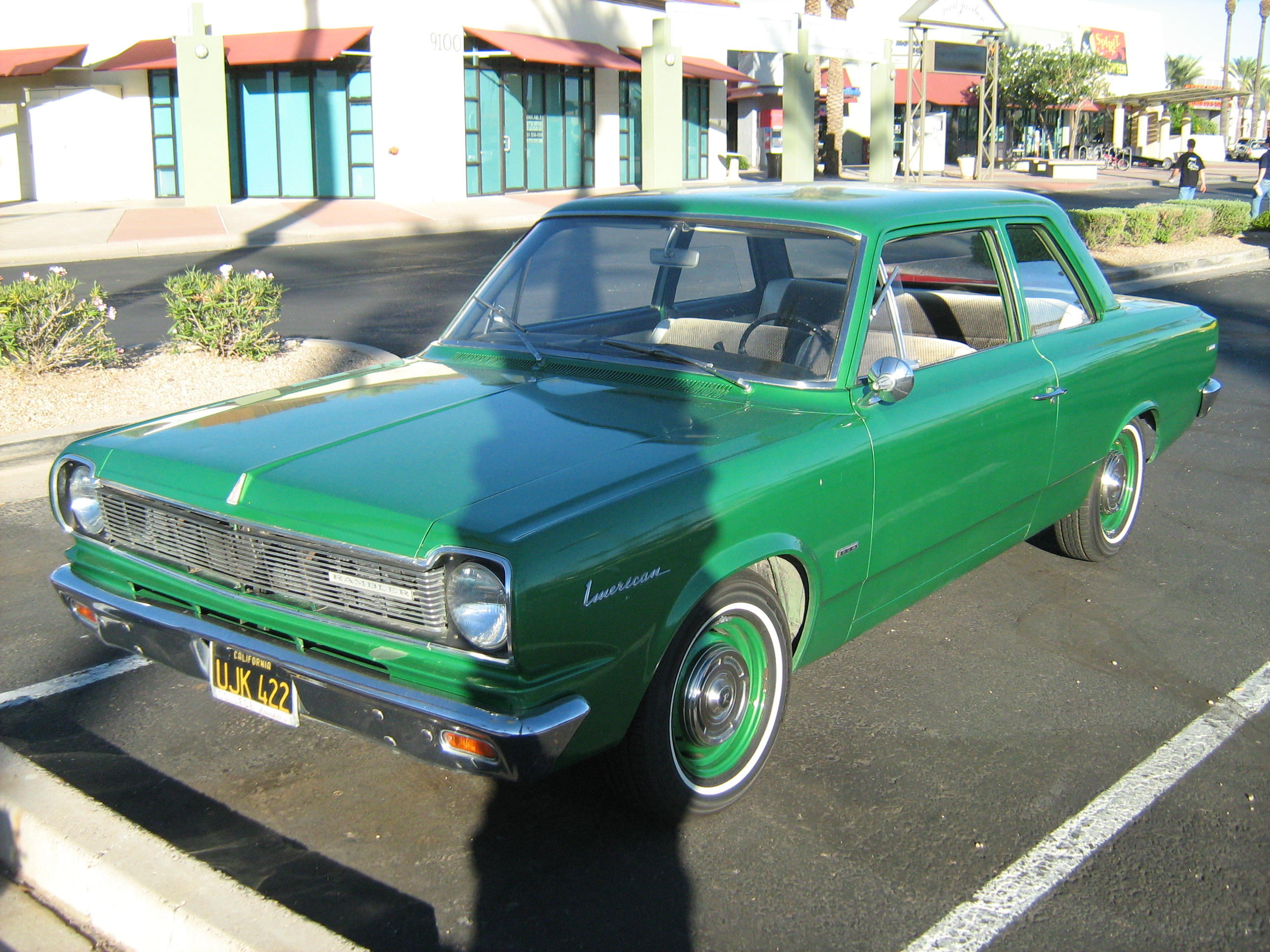 1967 Rambler American 220 (base model) two-door sedan made by American Motors Corporation (AMC).